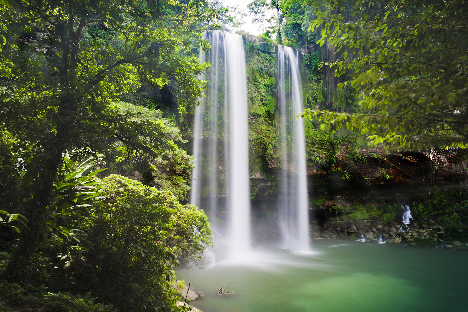 Misol.ha waterfall